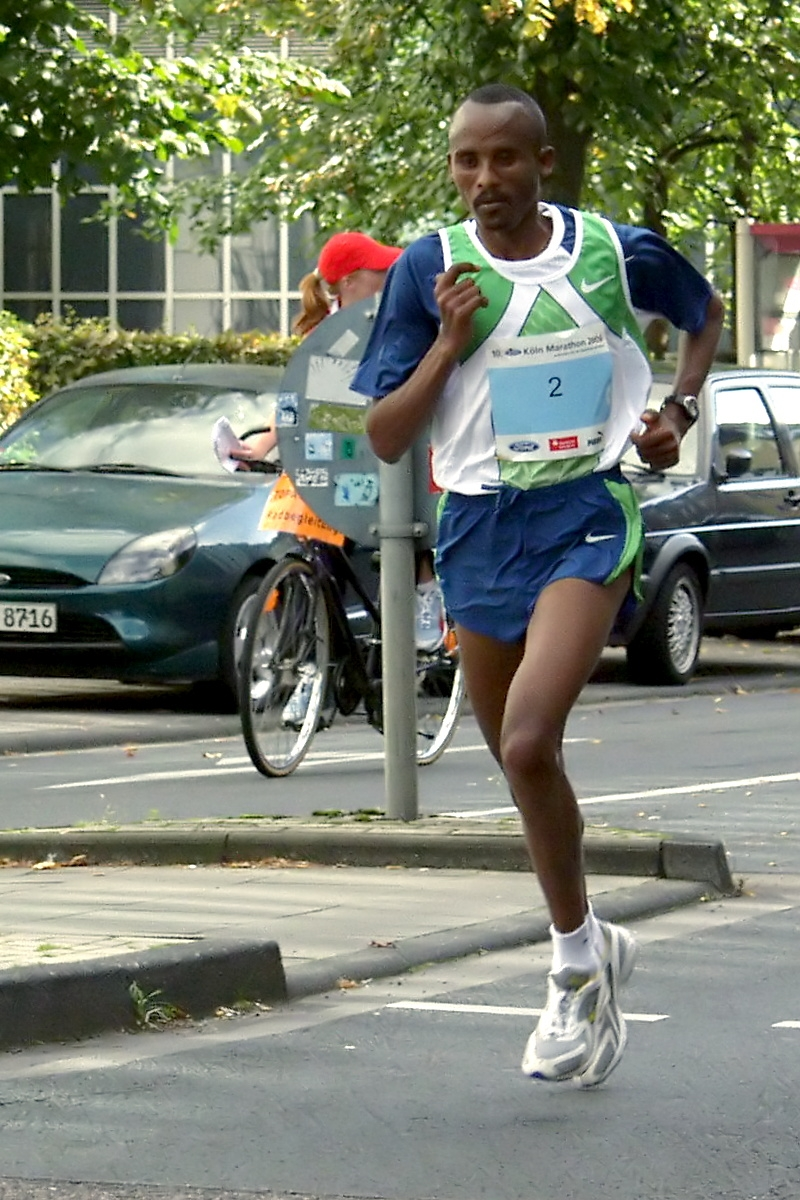 Teferi Wodajo, winner of Cologne Marathon 2006, between km 21 and 22